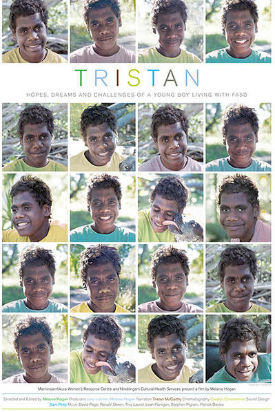 Tristan by Melanie Hogan